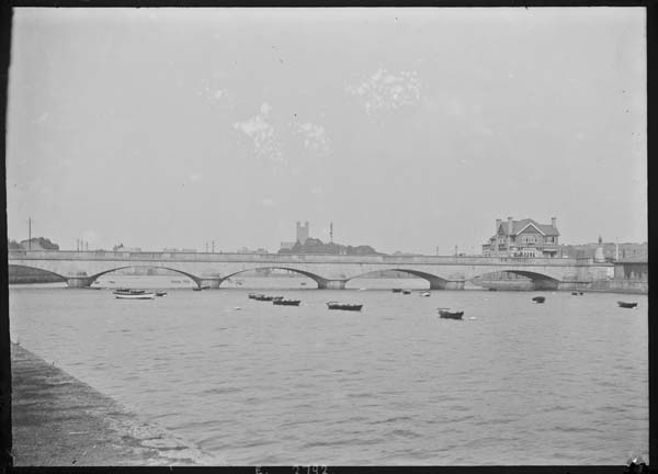 Photograph taken between 1900 and 1940 Part of: National Library of Ireland Eason Collection. For more photographs in this collection see National Library of Ireland catalogue: Reference number: EAS_2792